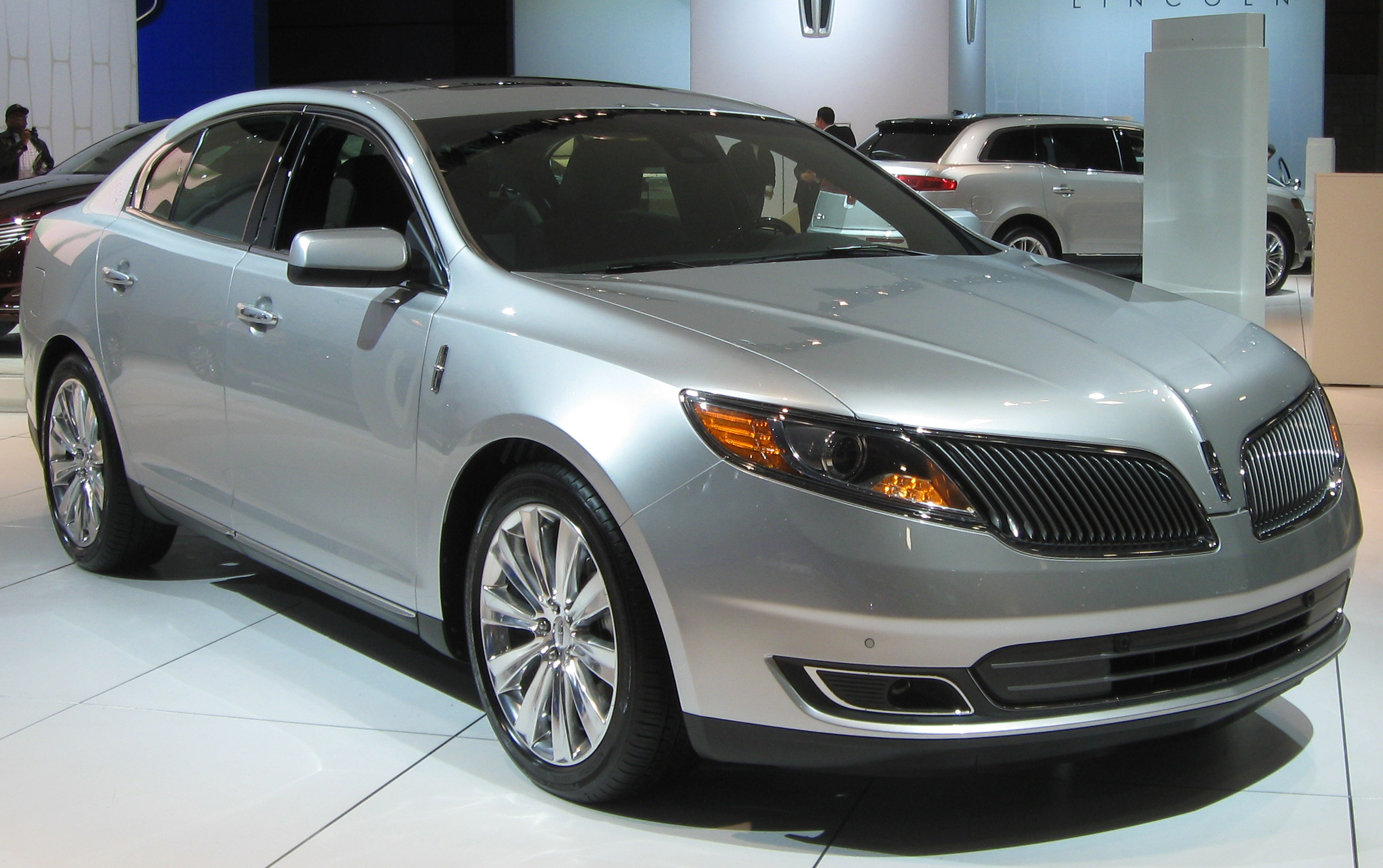 2013 Lincoln MKS photographed in Washington, D.C., USA.